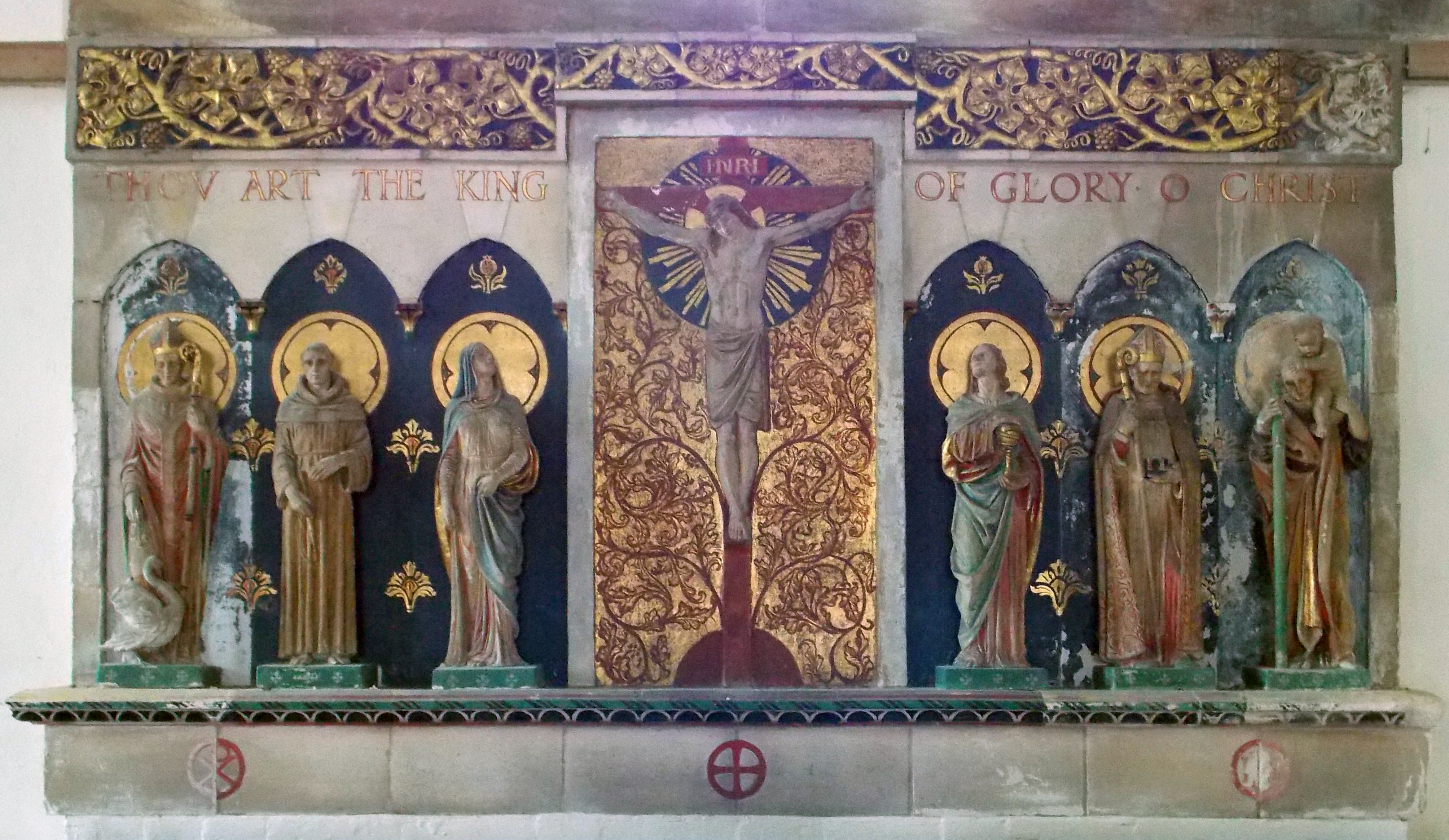 Sts Andrew & Mary Church, interior, Stoke Rochford - Mary Fraser Tytler reredos in chancel